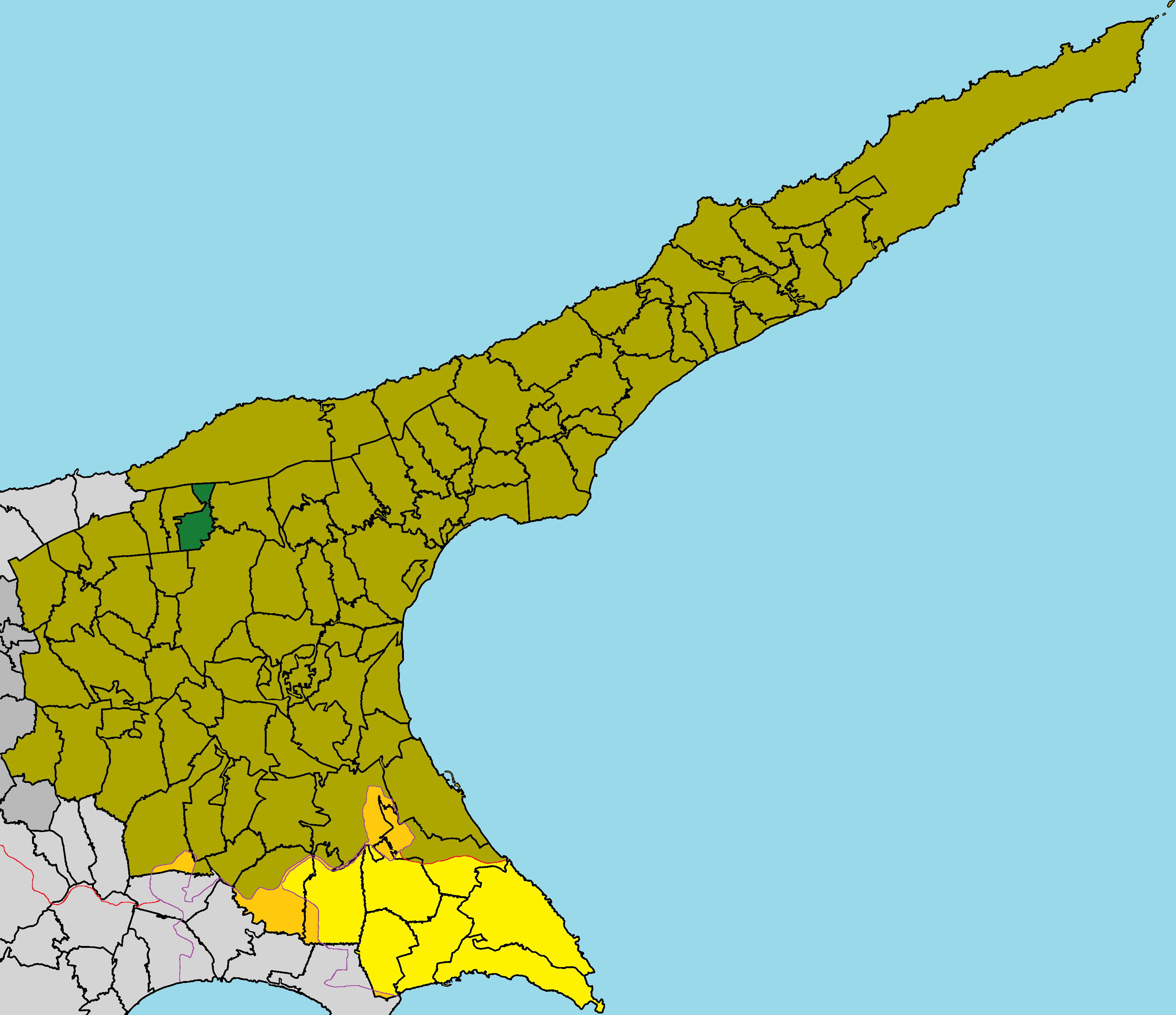 Artemi in Famagusta District (de jure).